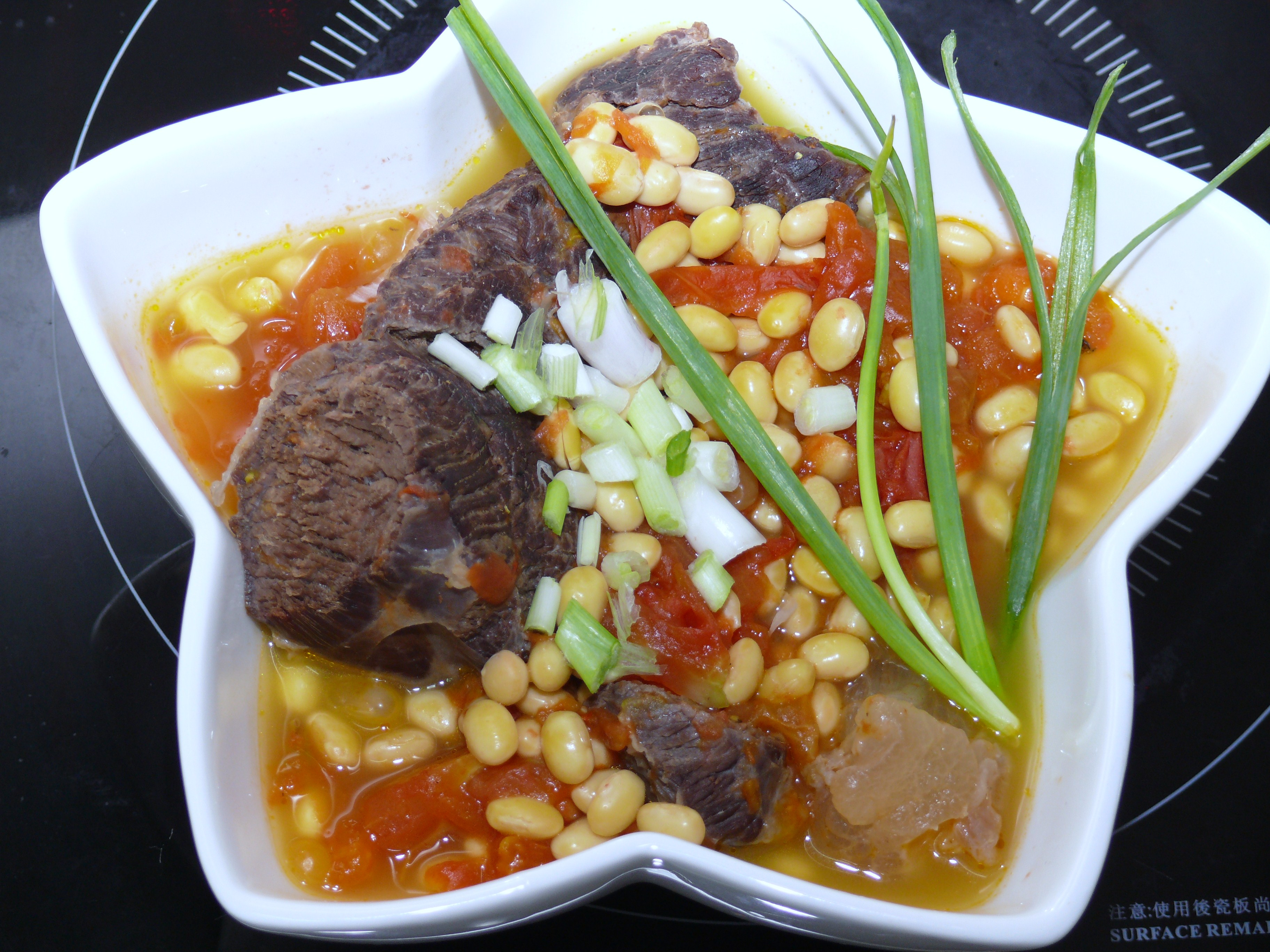 Balanced Diet